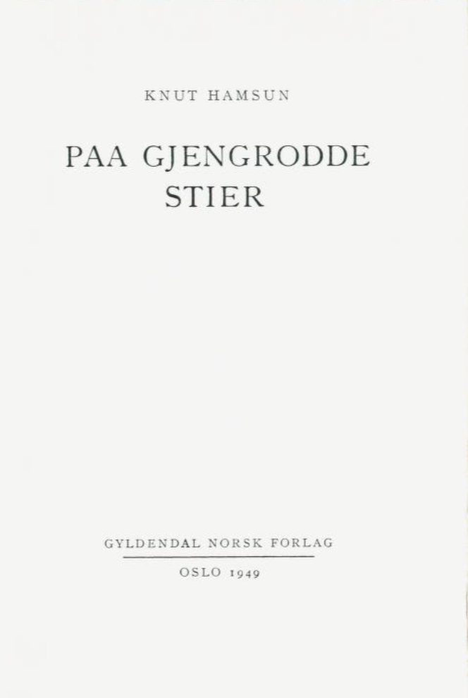 Title page of Knut Hamsun's autobiographical "On Overgrown Paths"